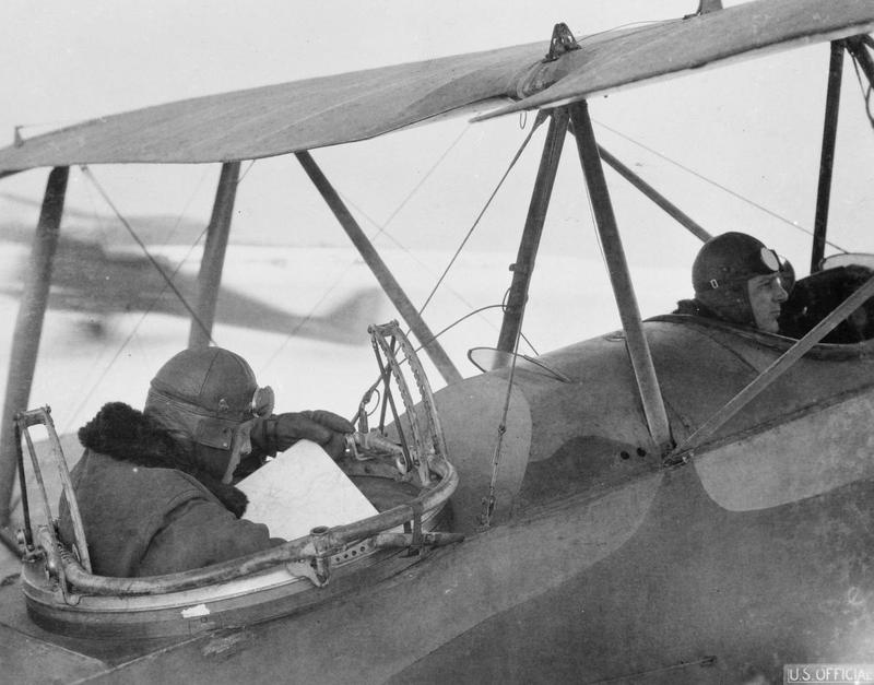 The US Air Force on the Western Front 1918-1919 Close-up of the pilot and observer in a Sopwith 1 1/2 Strutter.